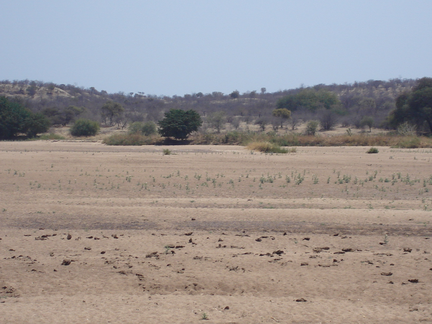 Thuli Safari Area, Zimbabwe, from the north crossing of the Thuli River.